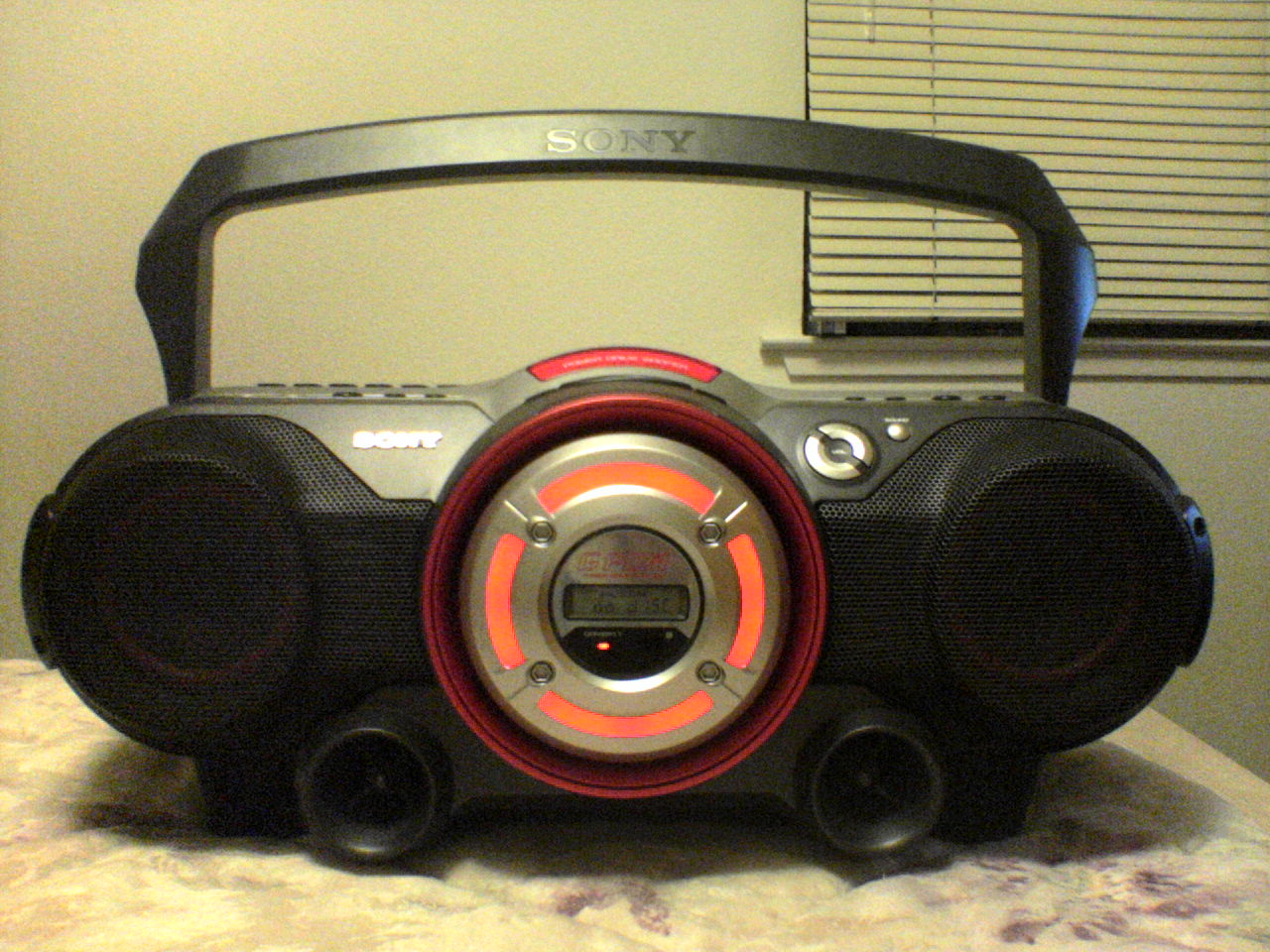 Photo taken January 30, 2006 of Sony model CFD-G500. Photographer releases all rights worldwide.